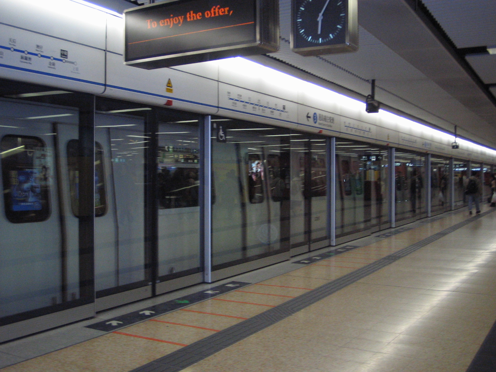 MTR Central station Platform 3